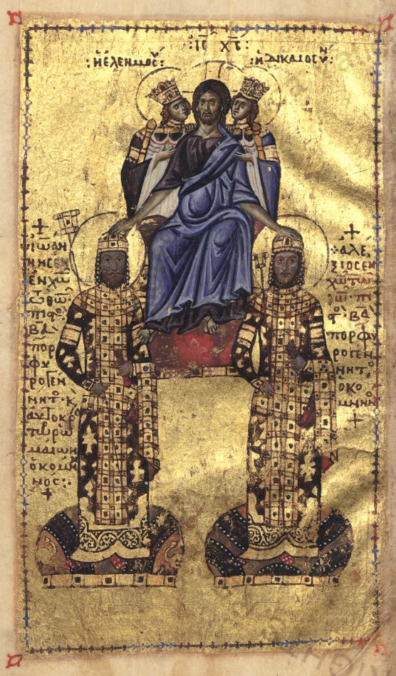 Emperor John II Komnenos (1087–1143) and his son and co-emperor Alexios (1106-1142)